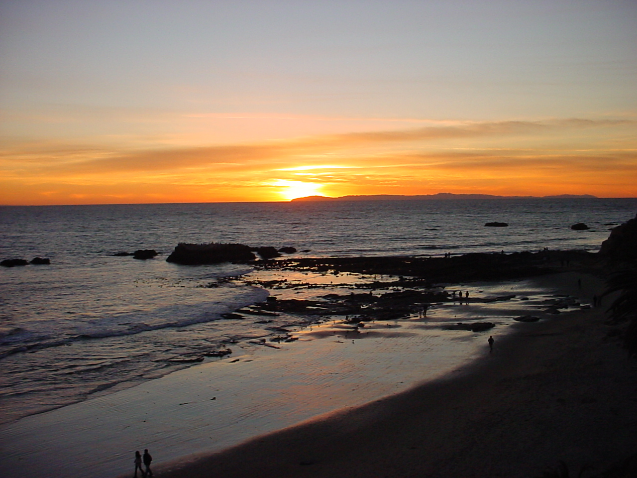 winter 2007, sunset in laguna Beach, CA, looking off toward catalina island